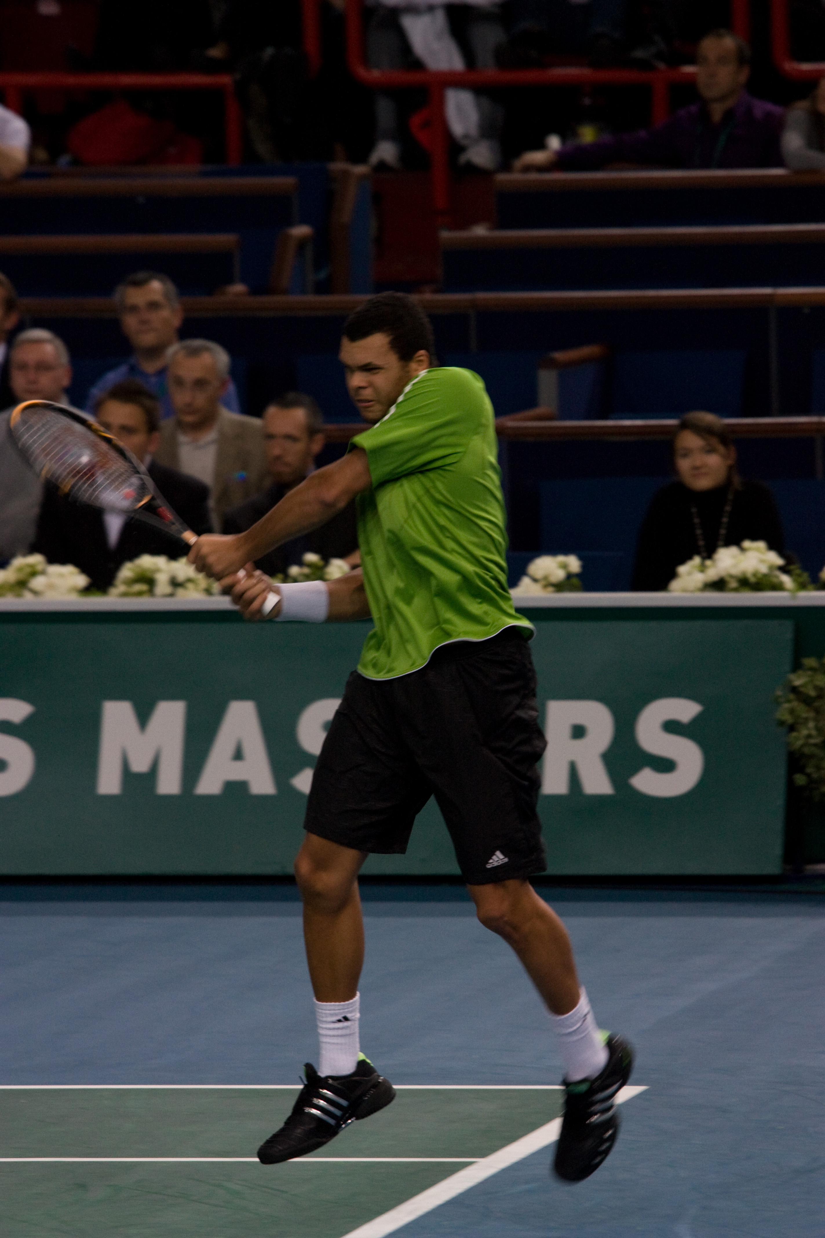 Jo-Wilfried Tsonga against Radek Stepanek at the 2008 BNP Paribas Masters